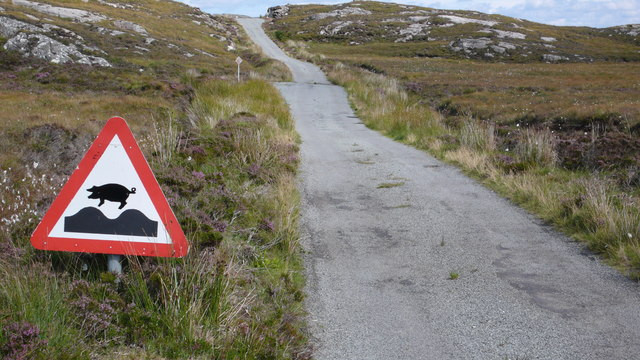 Pigs might fly................ A local with a sense of humour has customized the sign for this uneven stretch of road - a small bump in the road that has accounted for many exhausts over the years!